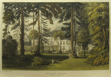 Pelling Place, Old Windsor, garden front. Seat of Bonnell family also of Purleigh Hall, Essex